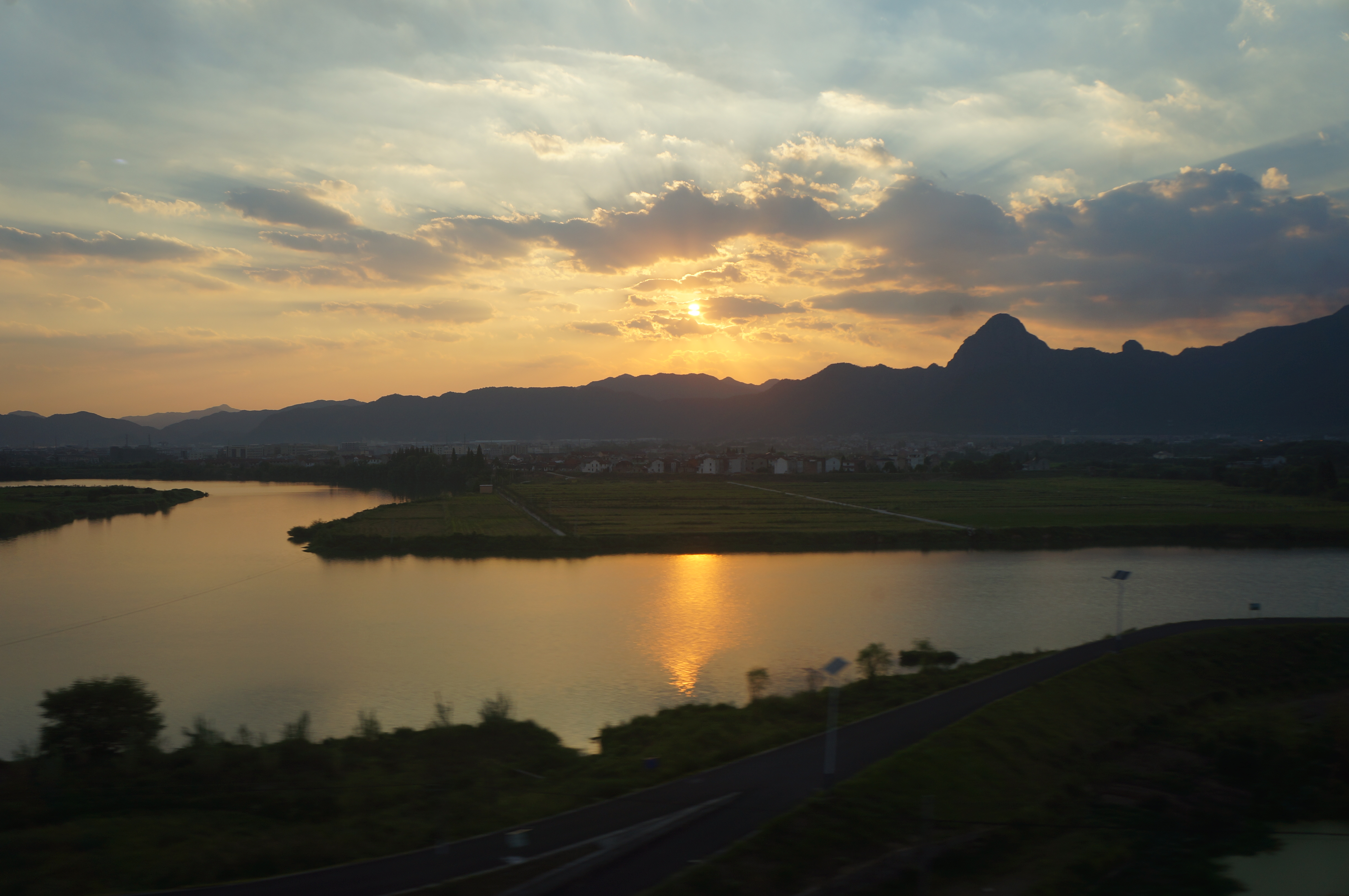 201608 Paitou Town in Zhuji under sunset